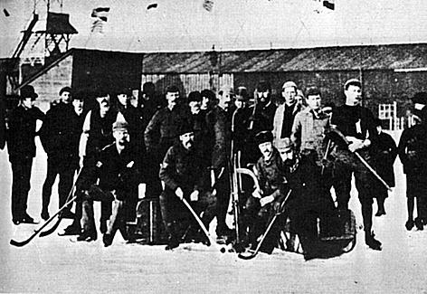 Team England Bandy 1913 (Davos)